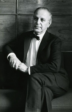 Foto of Ulvi Cemal Erkin